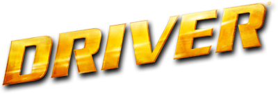 This is a logo of the Driver game series from Ubisoft.